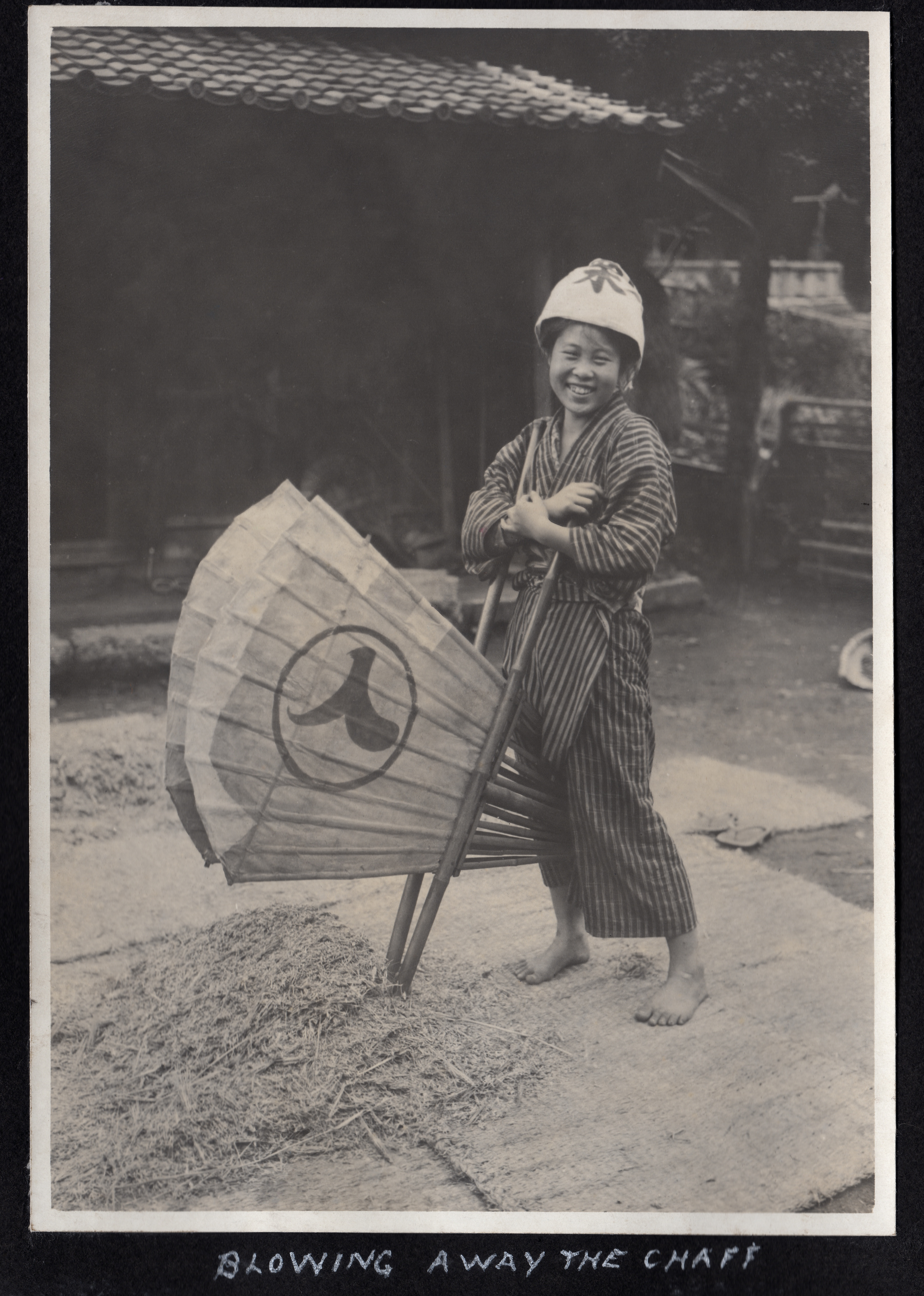 I want one of these fans! It combines functionality with exquisite craftsmanship and beautiful design. From Elstner Hilton's album of photographs he took in Japan between 1914 and 1918.